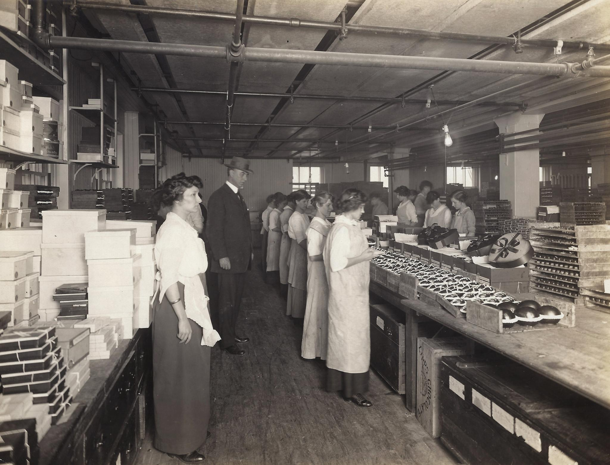 John Earnshaw, an early food and drug inspector working in and around Baltimore, inspects a clean and sanitary candy factory around 1911/12. Candy in the U.S. was made almost exclusively by women whose working conditions varied from good to abysmal. FDA inspectors and regular inspections played a role in improving working conditions for women. On top: women packing candy eggs at Easter. Bottom: women hand rolling chocolates. For more information about FDA history visit